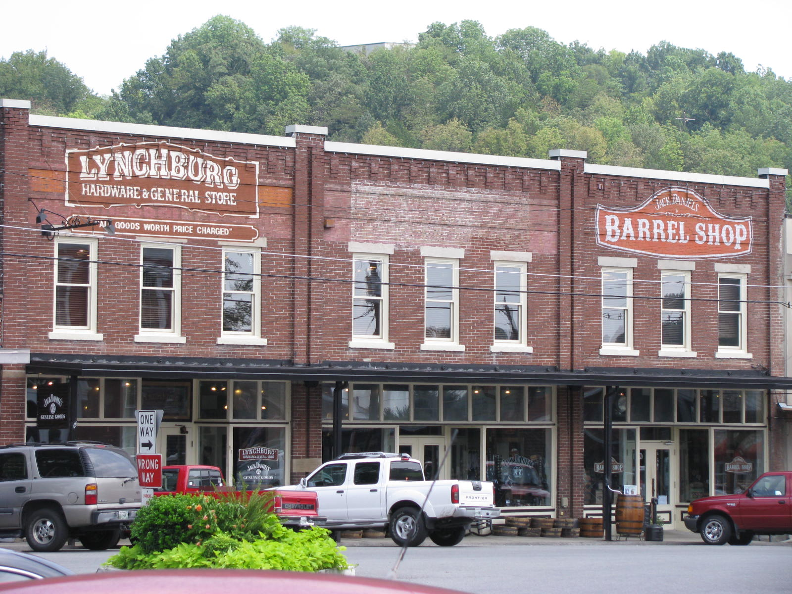 Shops along the town square in Lynchburg, Tennessee, United States